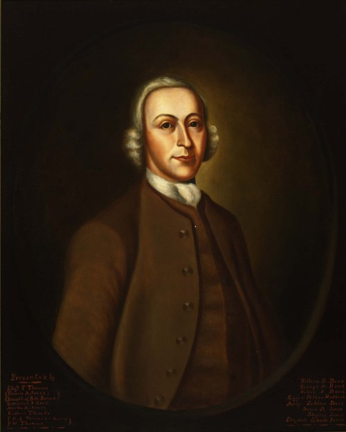 This is a painting of Peter Harrison done in 1800 by Louis Sands, a copy of c. 1756 portrait by Nathaniel Smibert